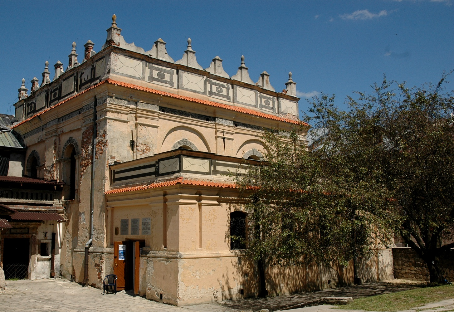 The Synagogue in Zamość